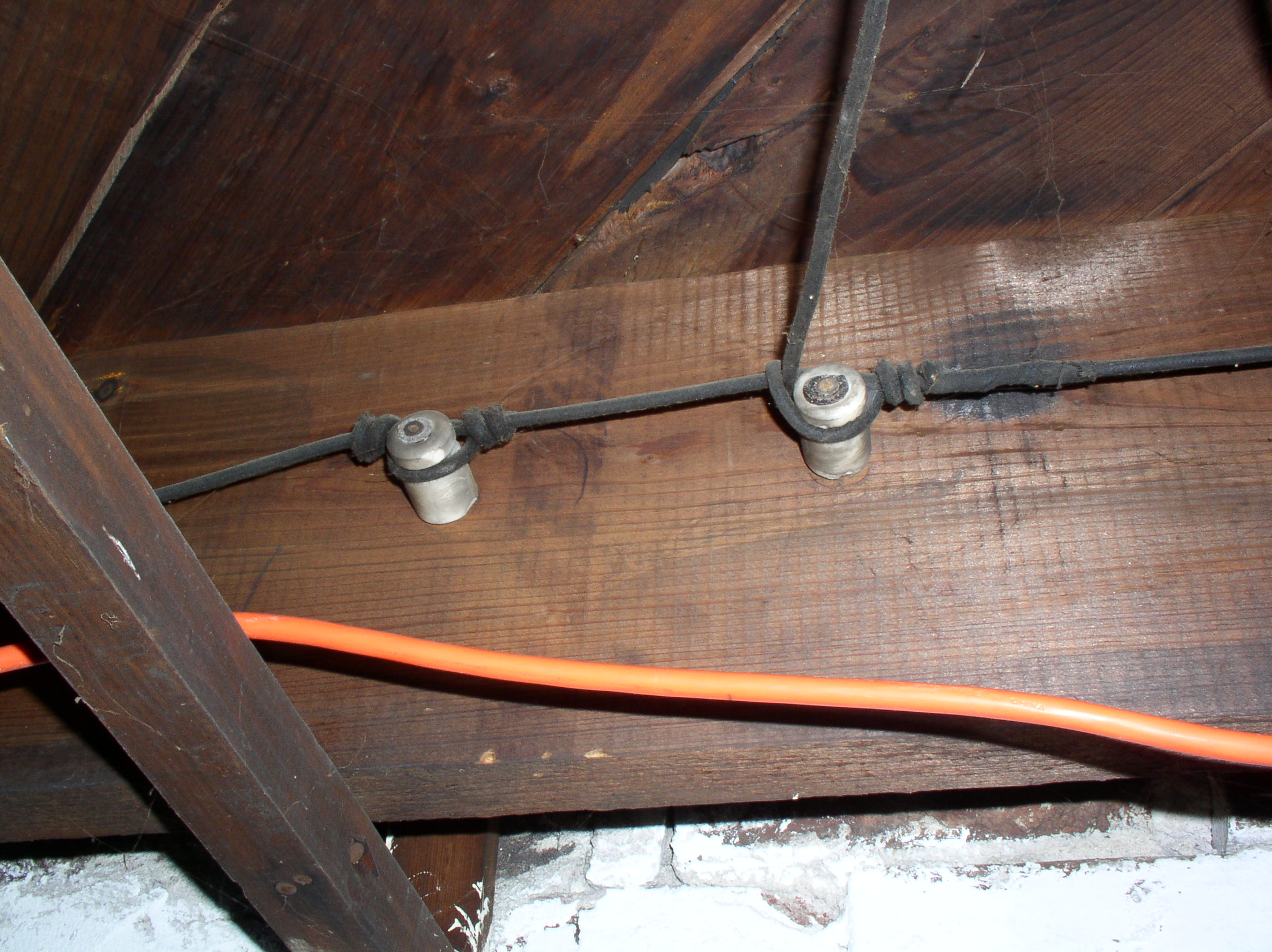 An example of early knob and tube wiring. In some cases, a single knob could serve multiple functions: protecting a splice, supporting a run, and turning a corner.